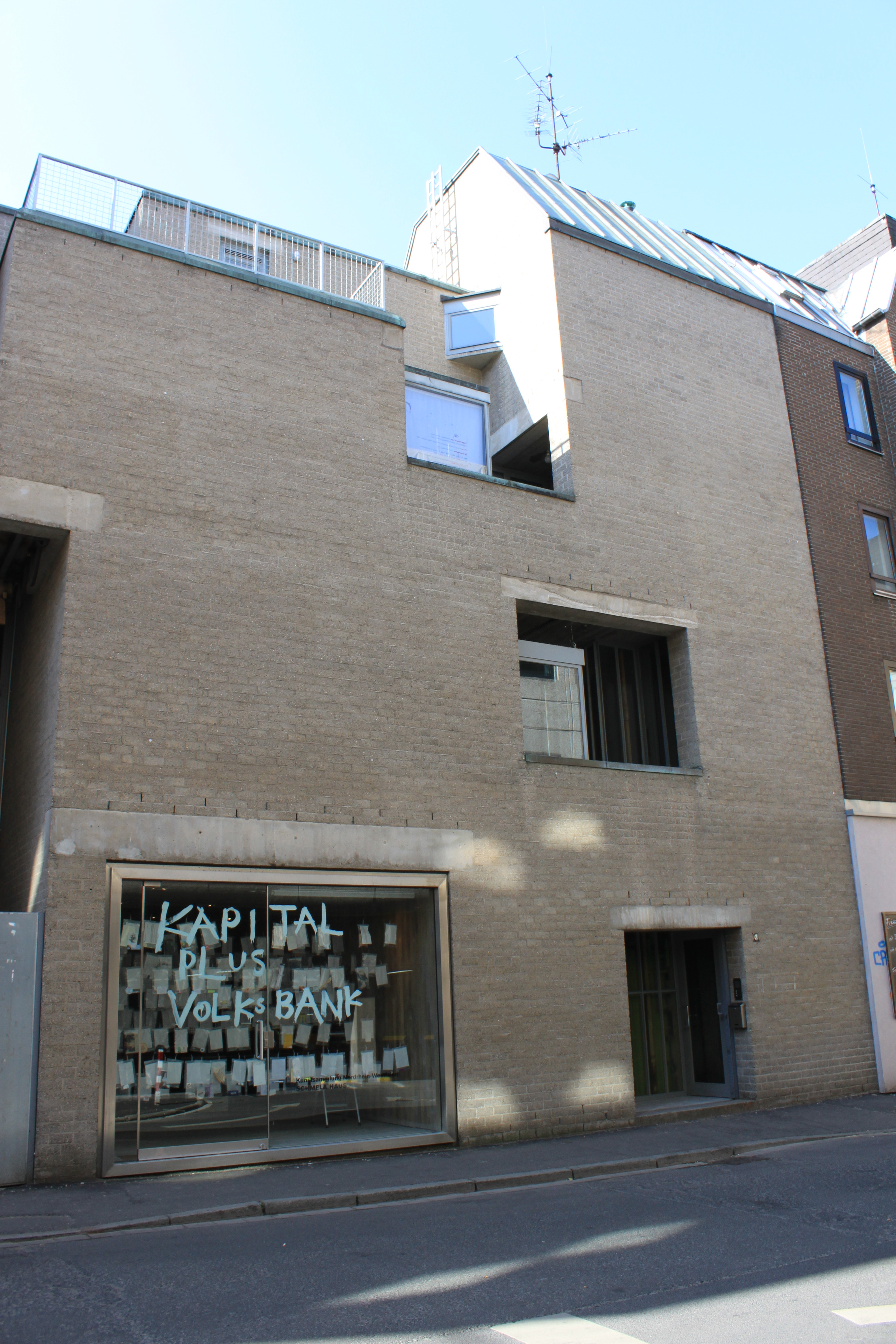 Außenansicht vom Schmela Haus